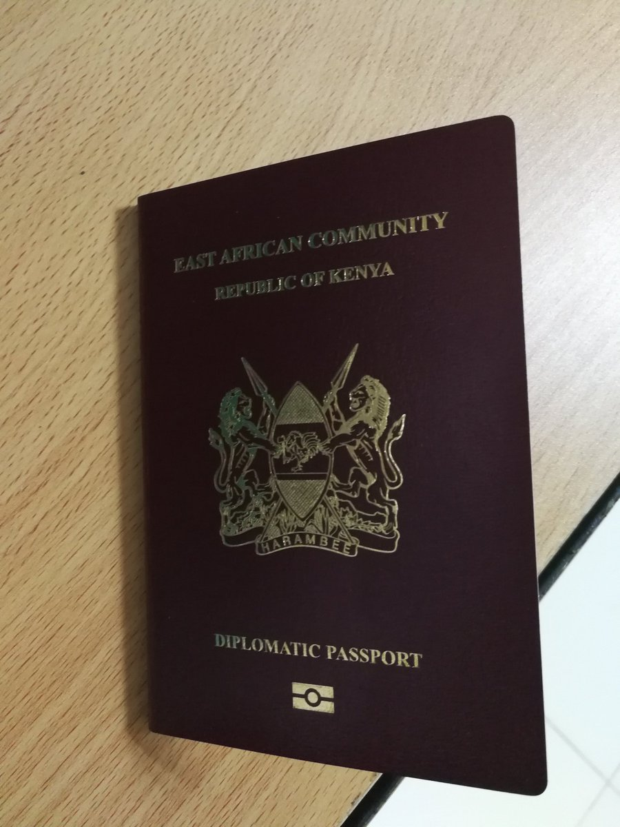 Diplomatic Passport Cover Kenya Kiswahili: Pasi ya Kidiplomasia ya Kenya